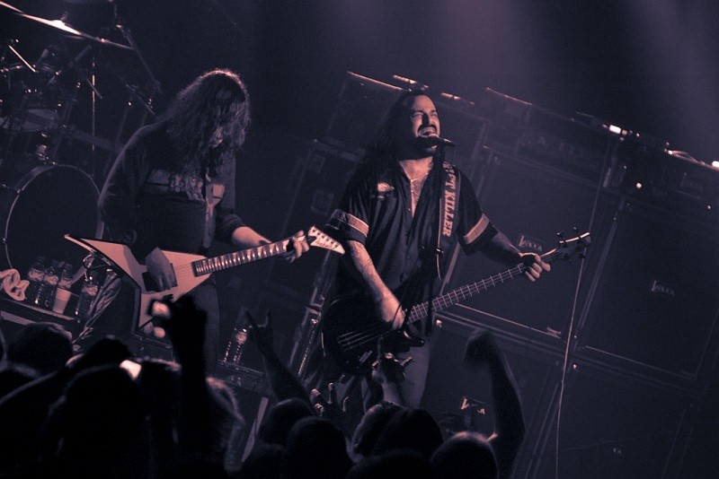 Winterfest 2009, Deicide, Warszawa, Progresja, 22.01.2009